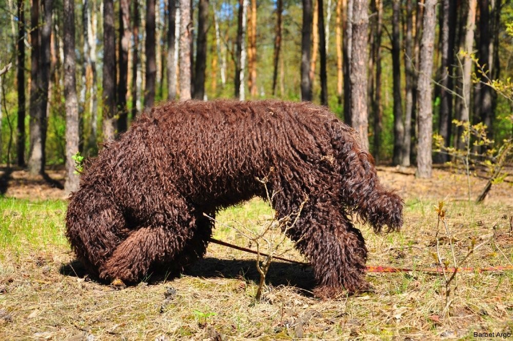 Two year old Barbet Argo form Górka Podduchowna kennel